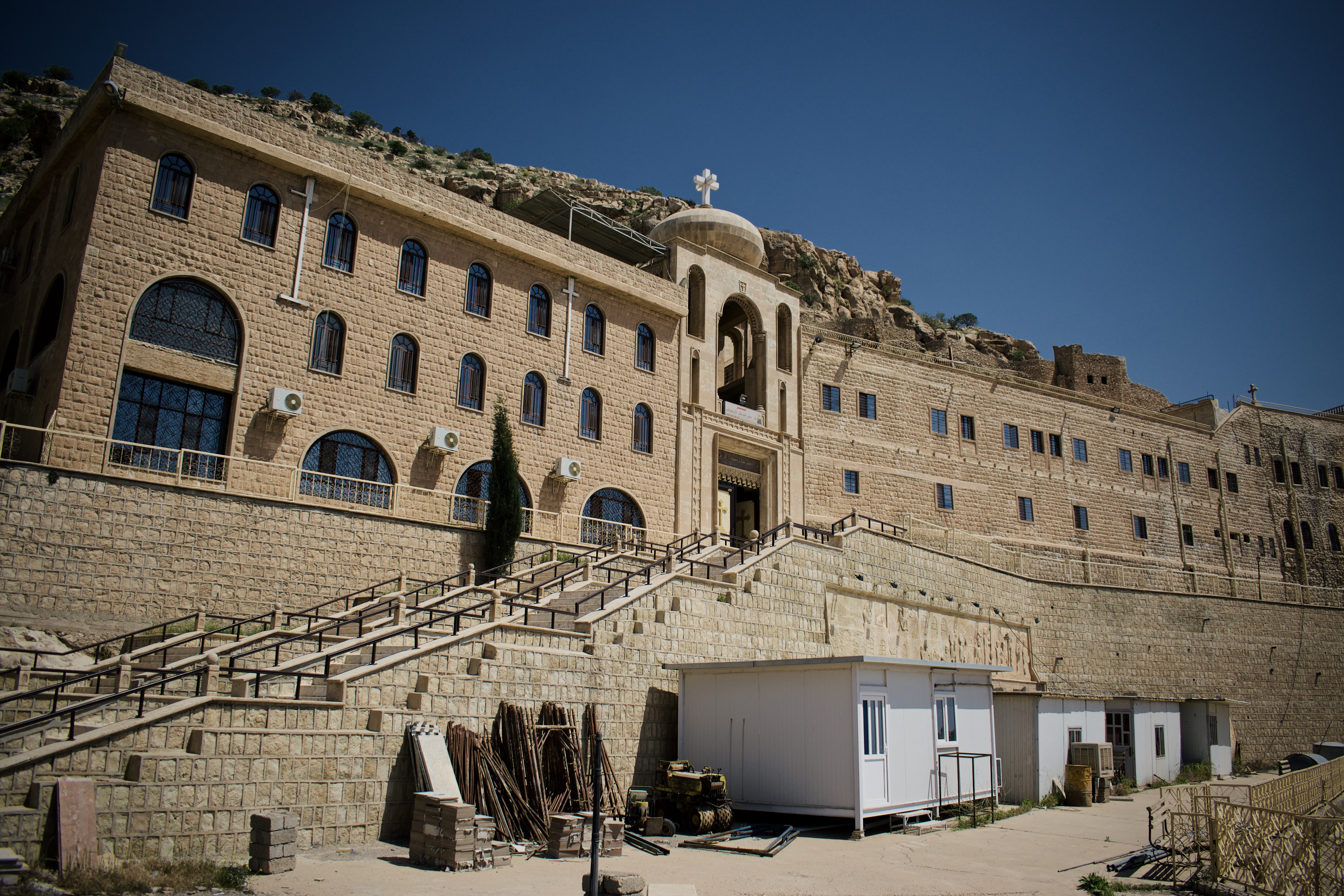 The Monastery of Saint Matthew and its environs